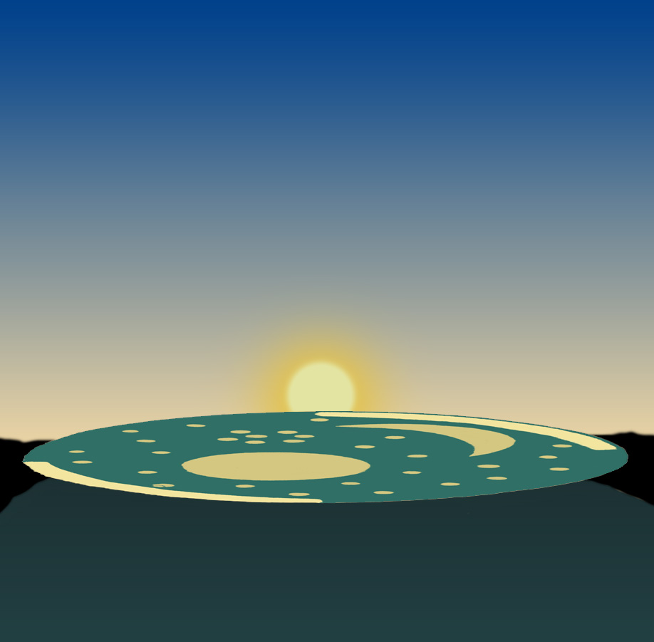 Nebra skydisc, position of the arcs at evening of winter solstice.